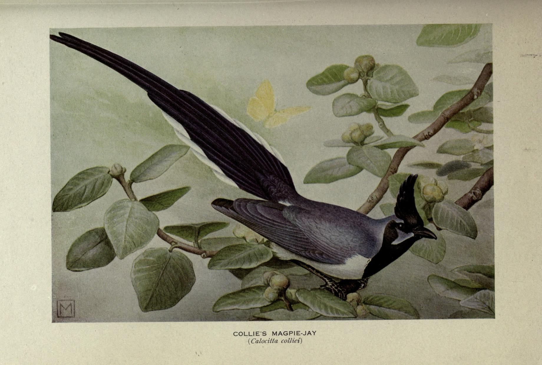 Birds of the world